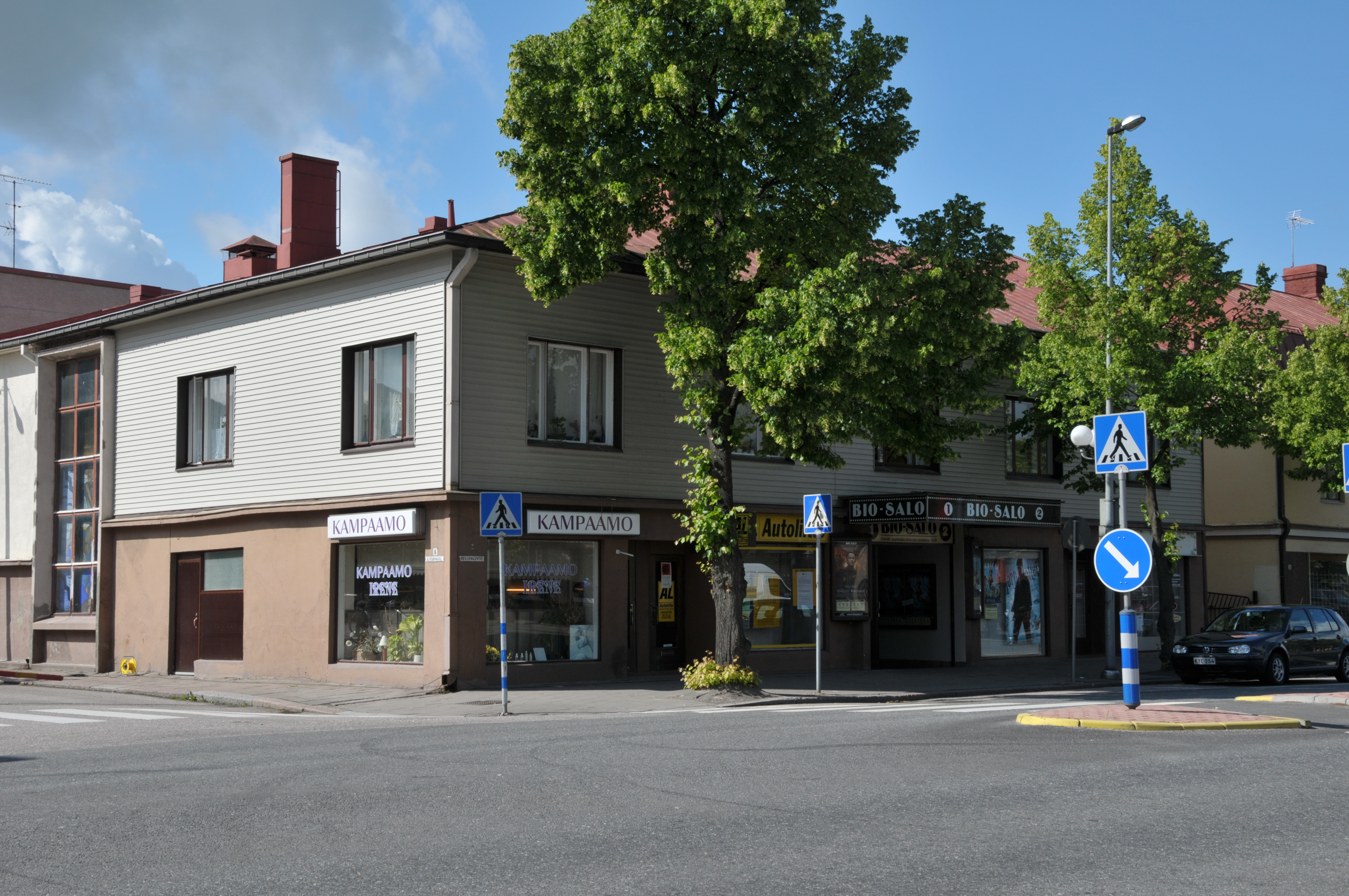 Helsingintie 11 in Salo